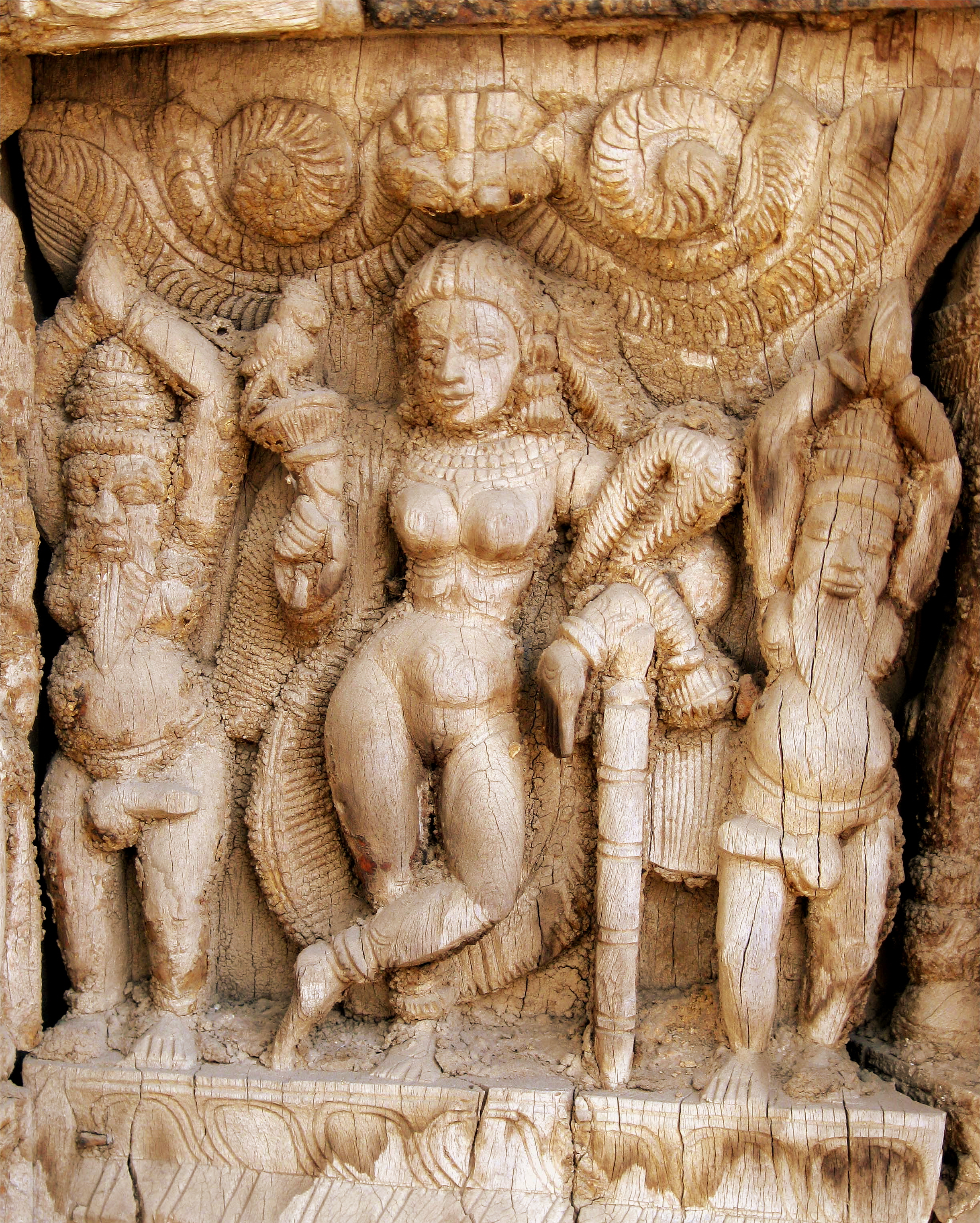 Details of wood carvings in a deserted temple car belonging to the Ayodhyapattinam Sri Rama temple.